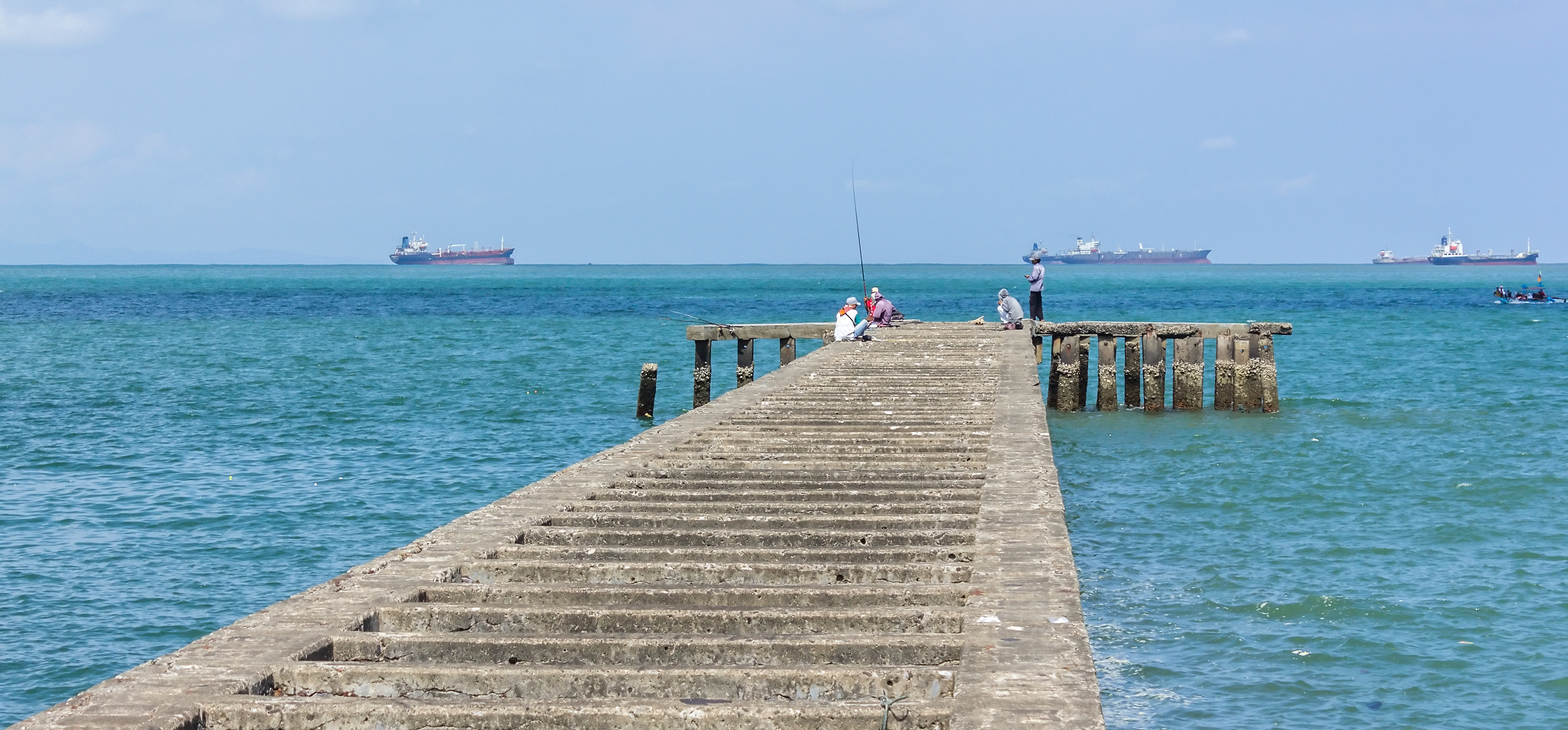 Dock, Teluk Penyu Beach, Cilacap 2015-03-21